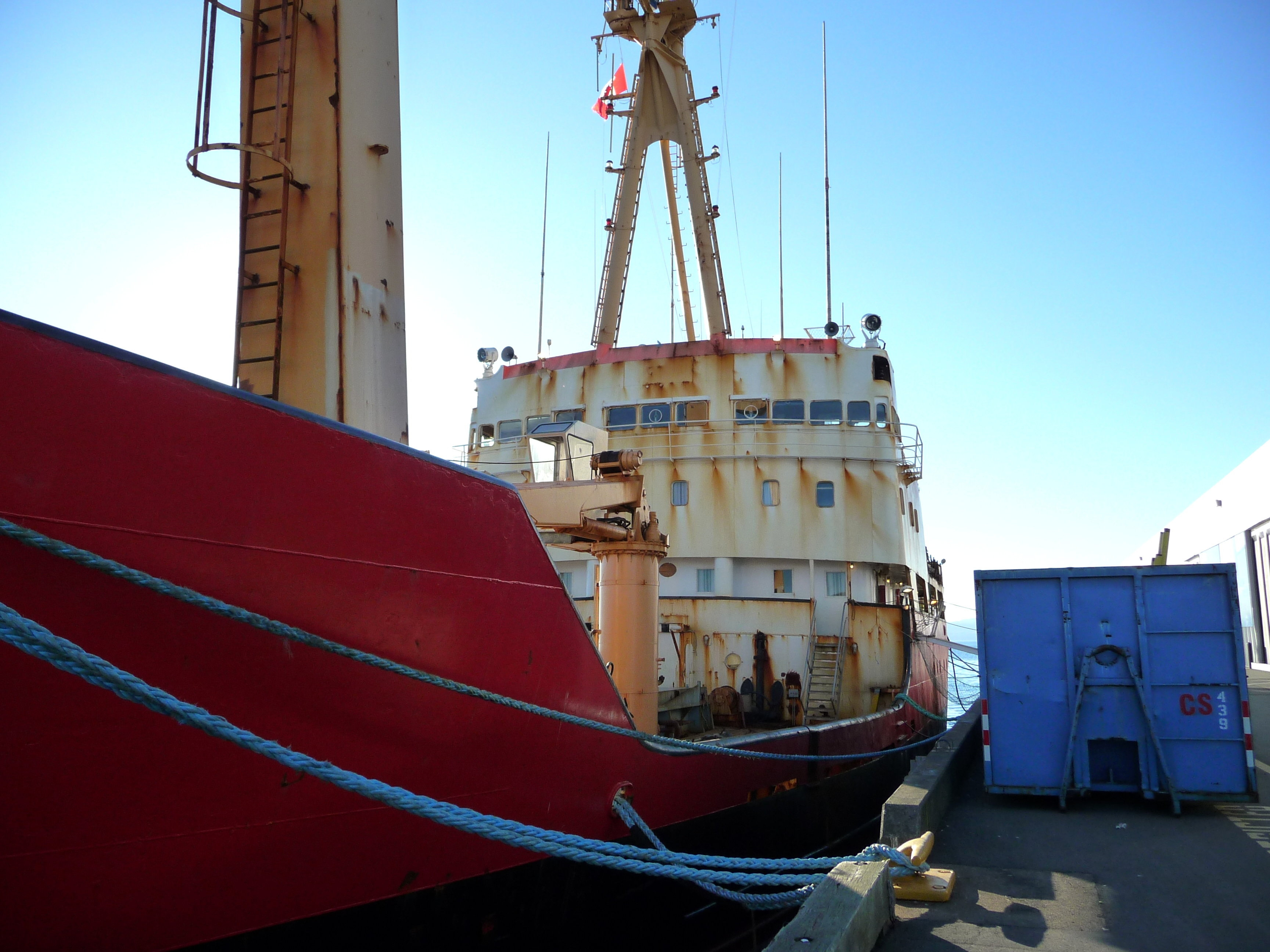 The Polar Prince is a multi-purpose ship orginally built in 1959 in Lauzon, Quebec as a class 100A medium-duty icebreaker for service in the Canadian Arctic as the CCGS Sir Humphrey Gilbert. She was completely rebuilt in the 1980s and promptly retired and sold for scrap. The ship was purchased by a Newfoundland company and mostly sat idle until it was sold to an investor and then modernized in 2009. In 2010 the Polar Prince was sold to GX Technology Canada, LTD (division of Ion) in Calgary, Alberta and finally put back to work in the Arctic. 67.06 Meter's long 2,152 GRT 3820 kw